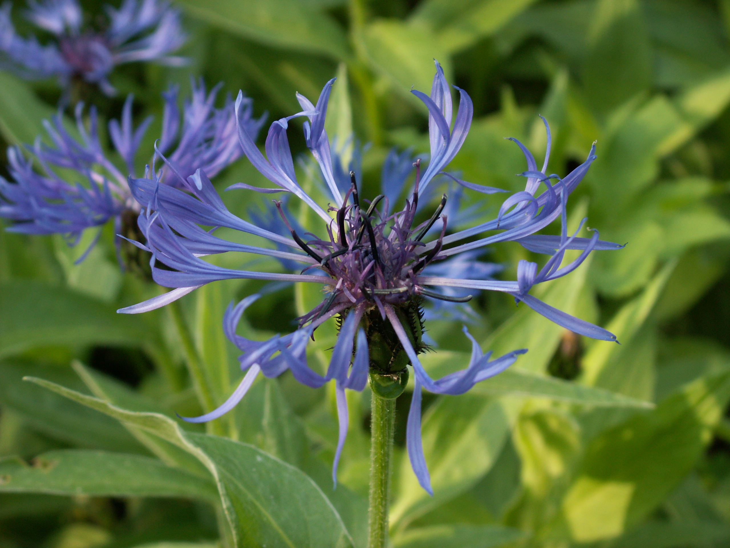 Centaurea montana.